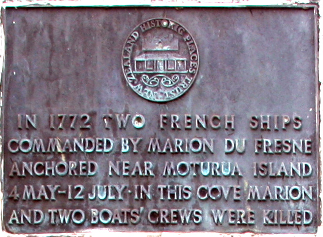 detail monument Marc-Joseph Marion Dufresne at Assassination Cove, New Zealand